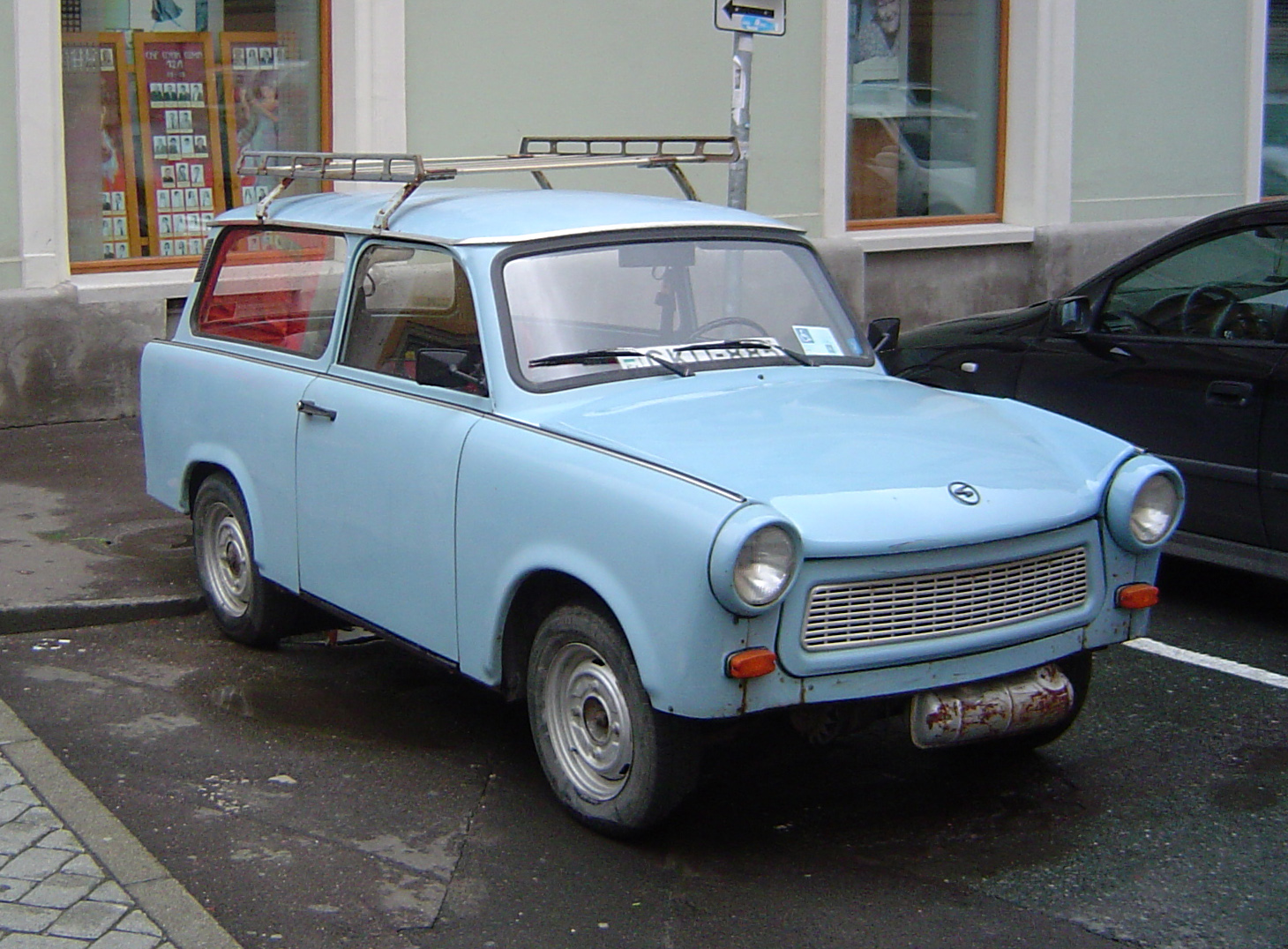 Blue Trabant 601 in Eger, Hungary